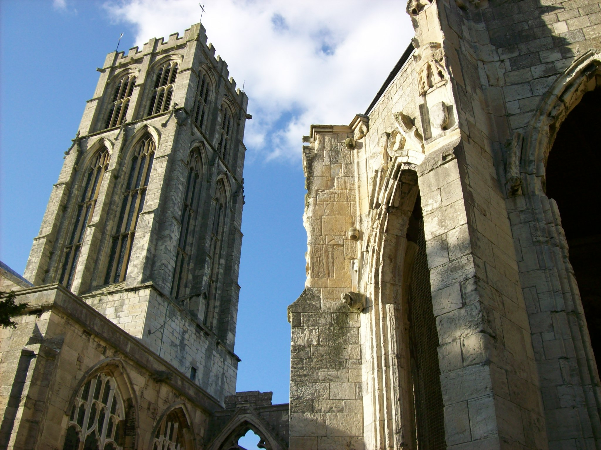 Howden Minster, tower and chapter house, Howden, East Riding of Yorkshire, England.